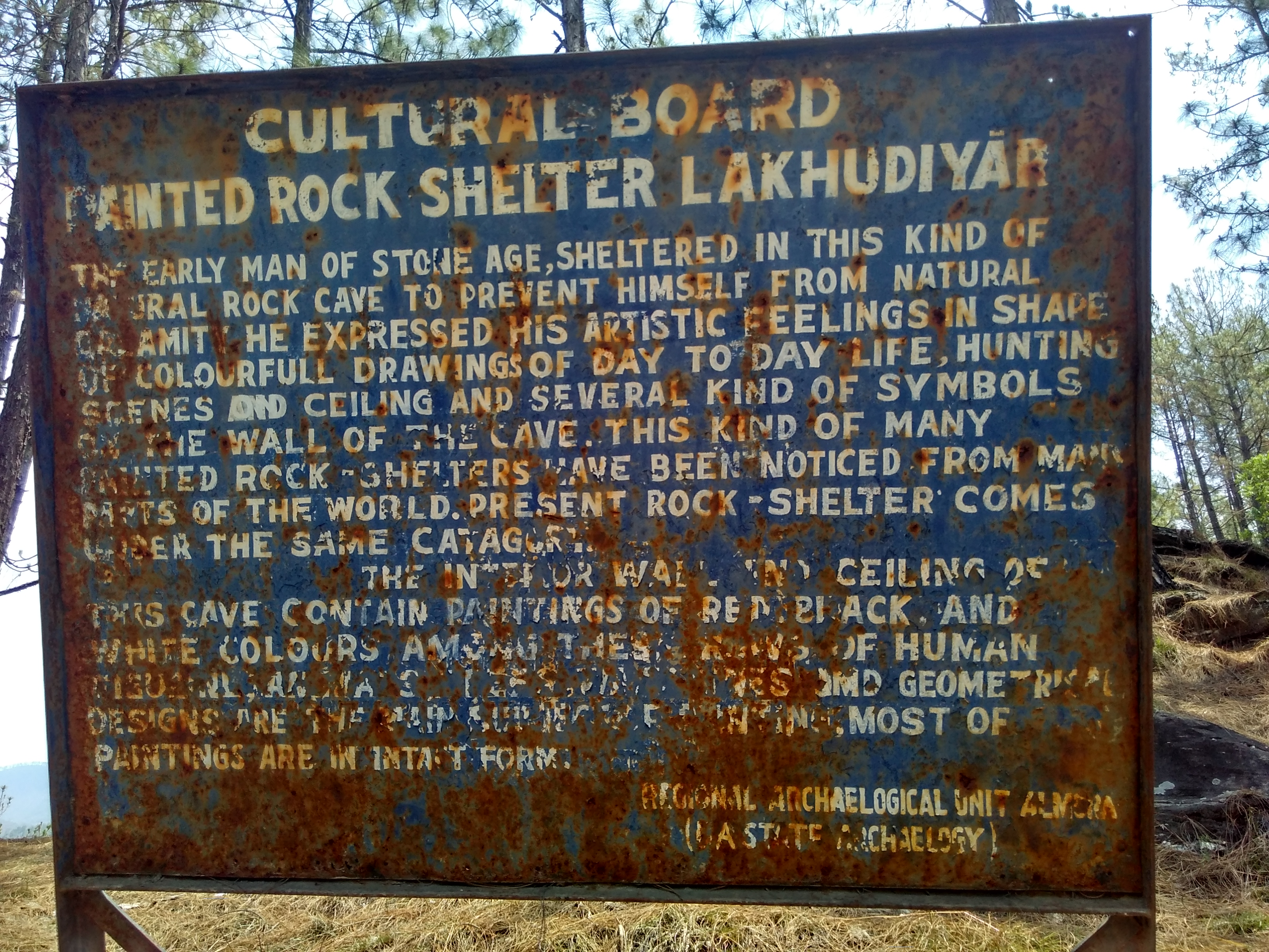 Barechhina is a village in Almora district, Uttarakhand, 18 km from the district headquarters, the city of Almora. .[1] It lies on highway from Almora-Barechhina-Dhaulchina-Sheraghat-RaiAgar-Berinag-Chaukori-Thai-Tejam to Munsiyari. It is noted for its two prehistoric painted rock-shelters, at 'Lakhudiyar', literally 'one lakh caves'[2], on the banks of Suyal river. These rock-shelters have paintings of animals and humans in addition to tectiforms done with fingers in black, red and white colours[3][4] and engravings of trishul and Swastika.[5] These images have now become a tourist attraction.[6] REFERENCES (1) Barechhina Archived 7 May 2008 at the Wayback Machine. (2) Lakhudiyar Archived 13 April 2009 at the Wayback Machine. Almora city, Official website. (3) Visual Arts of Uttaranchal, India Shekhar Chandra Joshi, Faculty of Visual Arts & Design, Kumaun University (Nainital). (4) Uttarakhand Arts (5) Rock art in Kumaon Himalaya = Colour Plate - 54 A, 54 B[permanent dead link] Rock art in Kumaon Himalaya, by Mathpal, Yashodhar. (New Delhi: Indira Gandhi National Centre for the Arts,Aryan Books International, 1995. ISBN 81-7305-057-0. (6) Places of Interest around Almora FURTHER READING Rock art in Kumaon Himalaya, by Mathpal, Yashodhar. New Delhi: Indira Gandhi National Centre for the Arts, Aryan Books International, 1995. ISBN 81-7305-057-0. (Submitted by Nripane Korpal) (